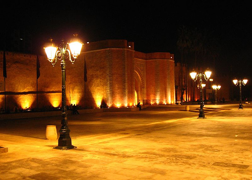 El Had door in Rabat